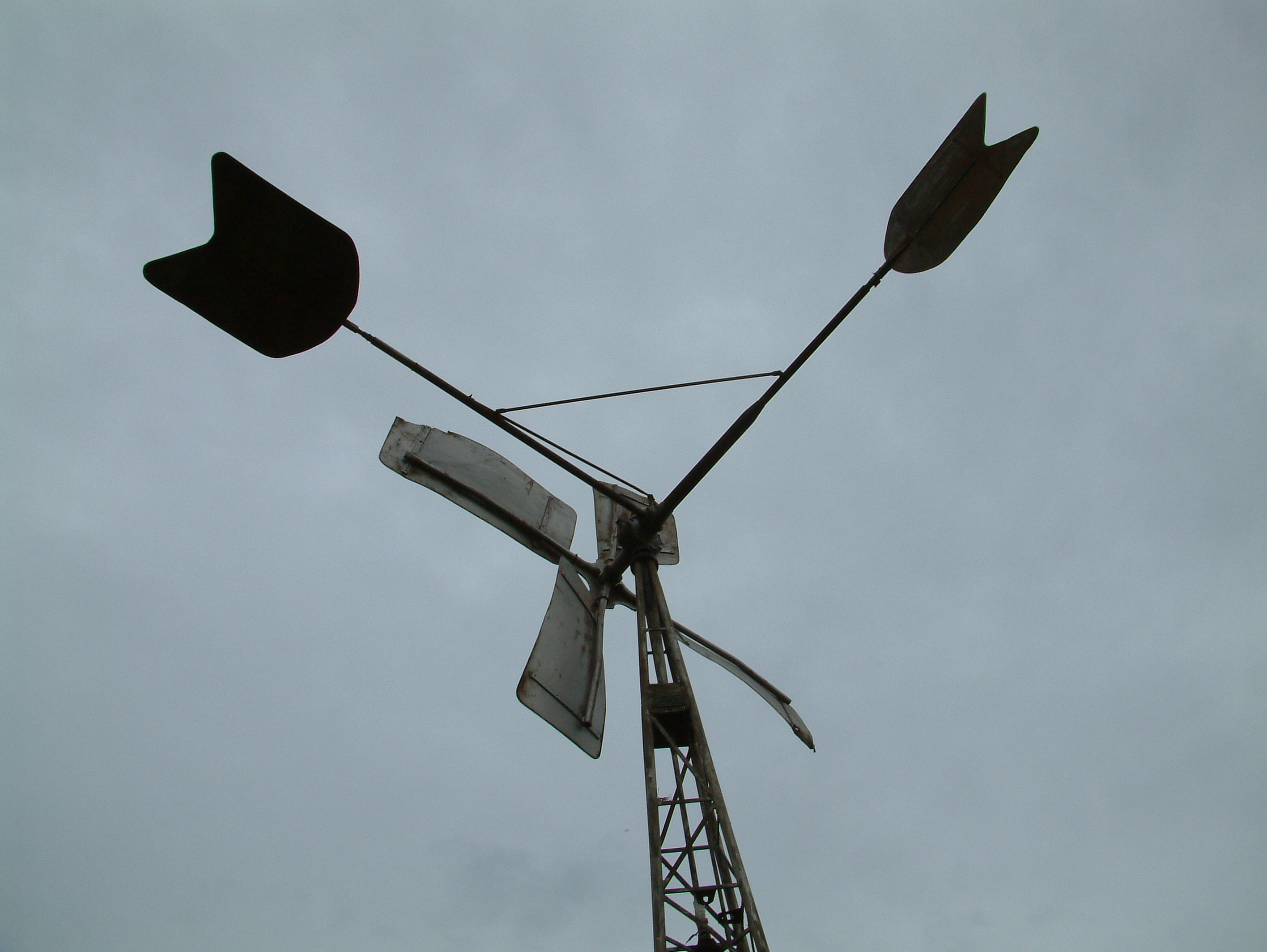 Top of windmill by Bas Bosman